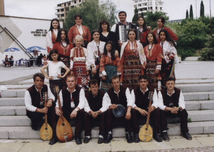 Folk performers from Chitalishte Prosveta, Pletena.